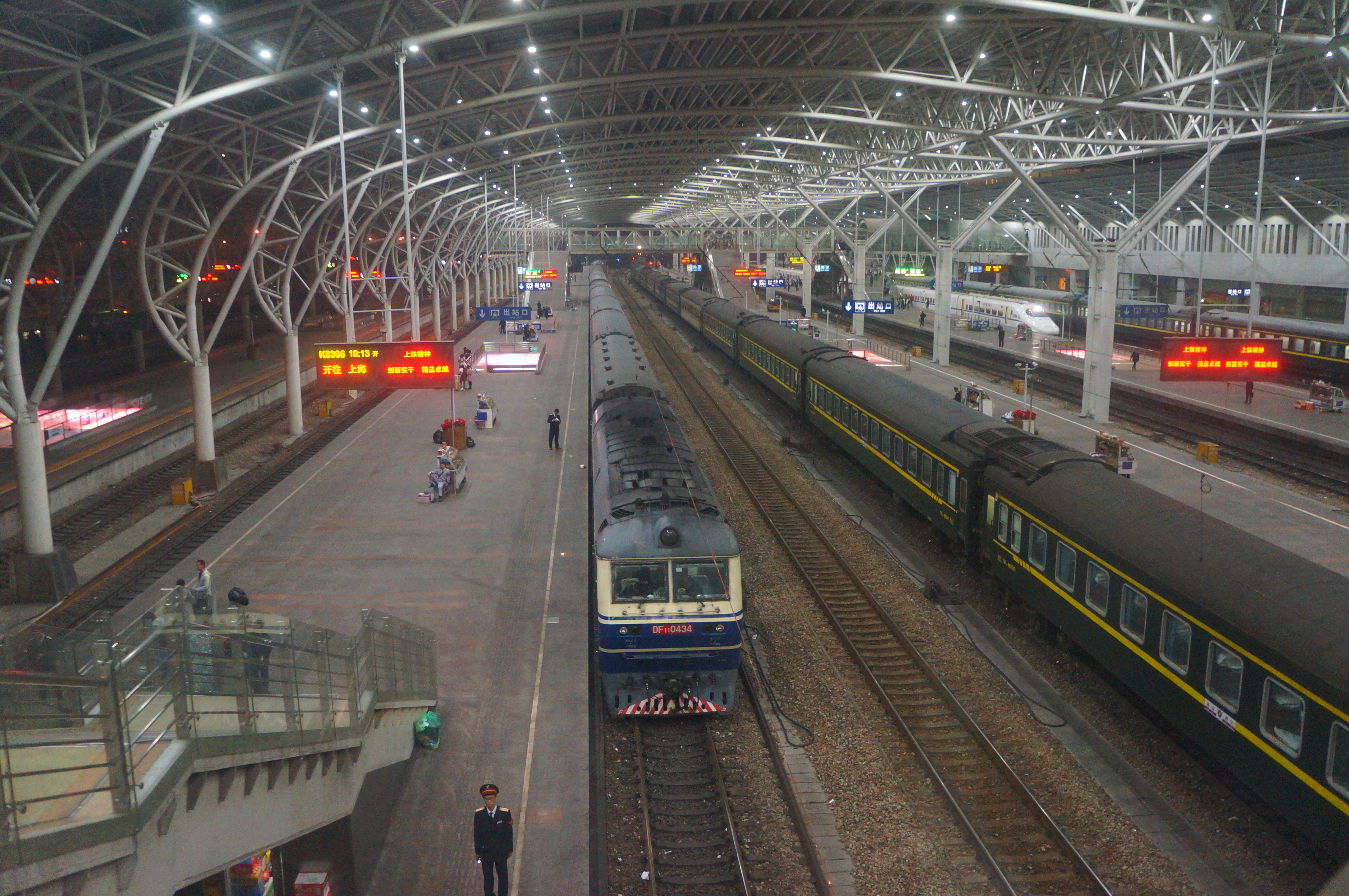 201704 T7776 waits for departure at Nanjing Station.